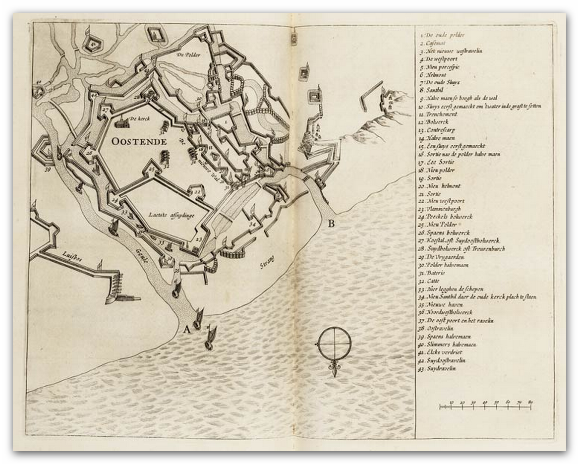 Map of Ostend (1647) in the military manual by Matthias Dögen "Architectura militaris moderna"